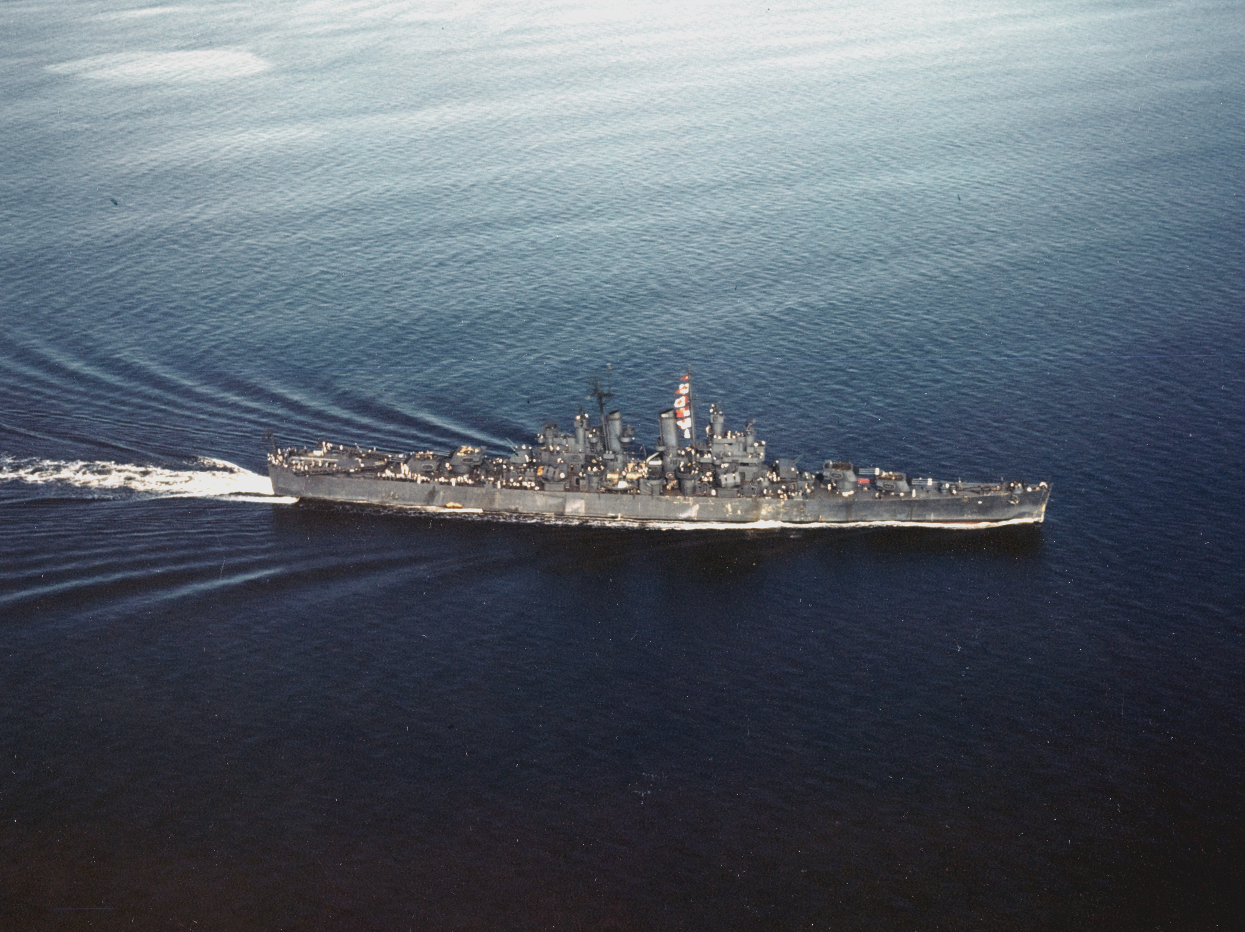 The U.S. Navy light cruiser USS Biloxi (CL-80) underway during her shakedown cruise, October 1943. She is painted in Measure 21 camouflage.